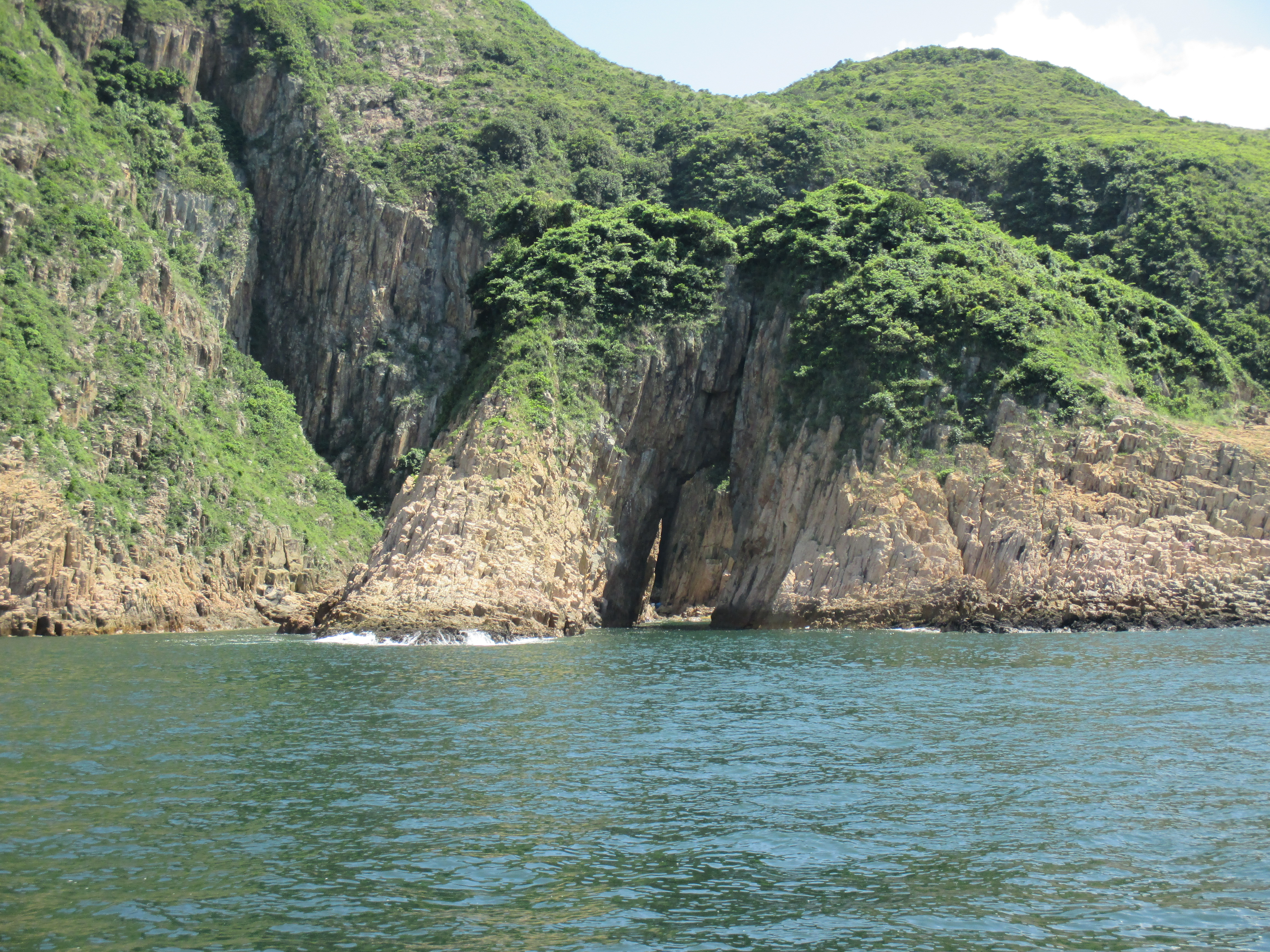 Sothern coast of Jin Island, Sai Kung District, Hong Kong